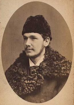 Andreas Nicolaus Kornerup (1857-1881), Danish geologist